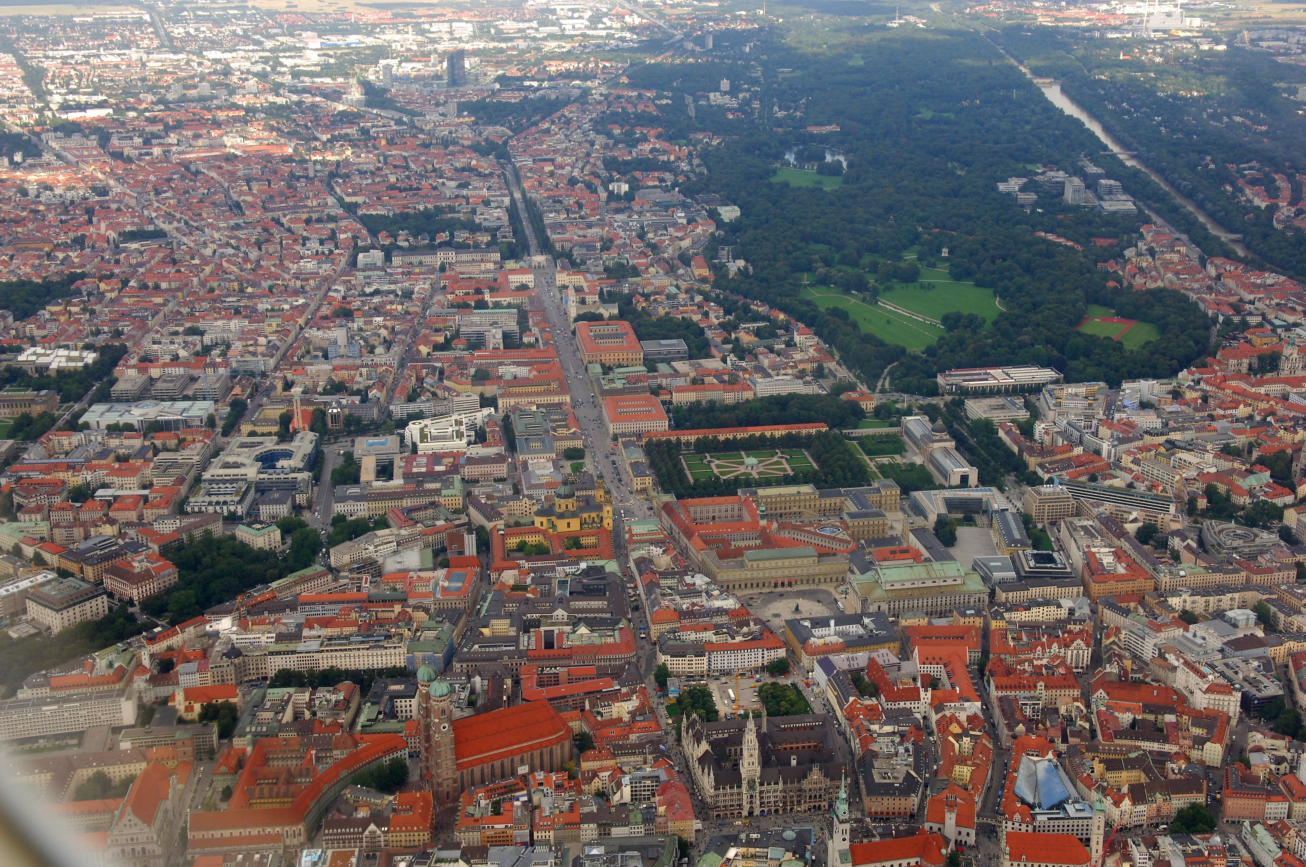 Aerial view of Munich (center: Ludwig- and Leopoldstraße)